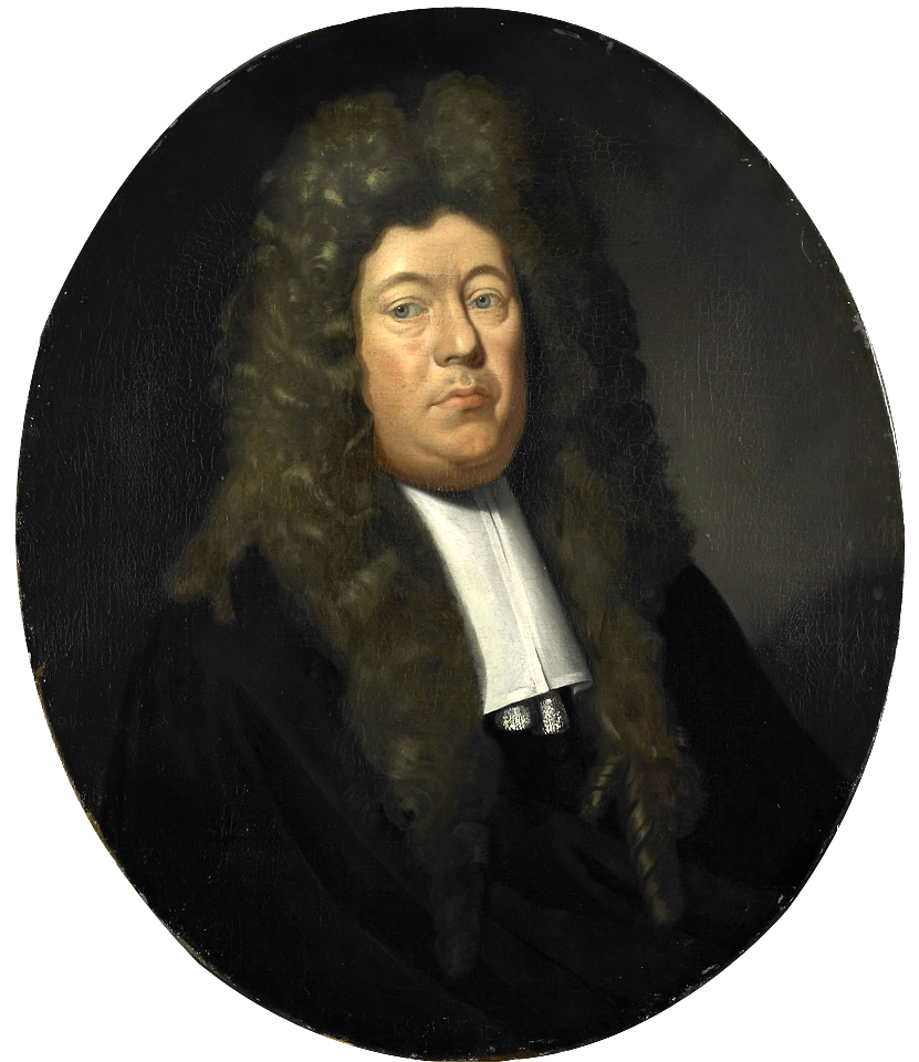 Portrait of Adriaen Paets (1631-1686), elected in 1668 as director of the Rotterdam Chamber of the Dutch East India Company. After an unknown original. Bust, facing right, in an oval. Part of the Rotterdam VOC series, a series of portraits of directors of the Rotterdam Chamber of the Dutch East India Company executed for the Nieuw Oost-Indisch Huis, built in 1698, on Boompjes in Rotterdam.